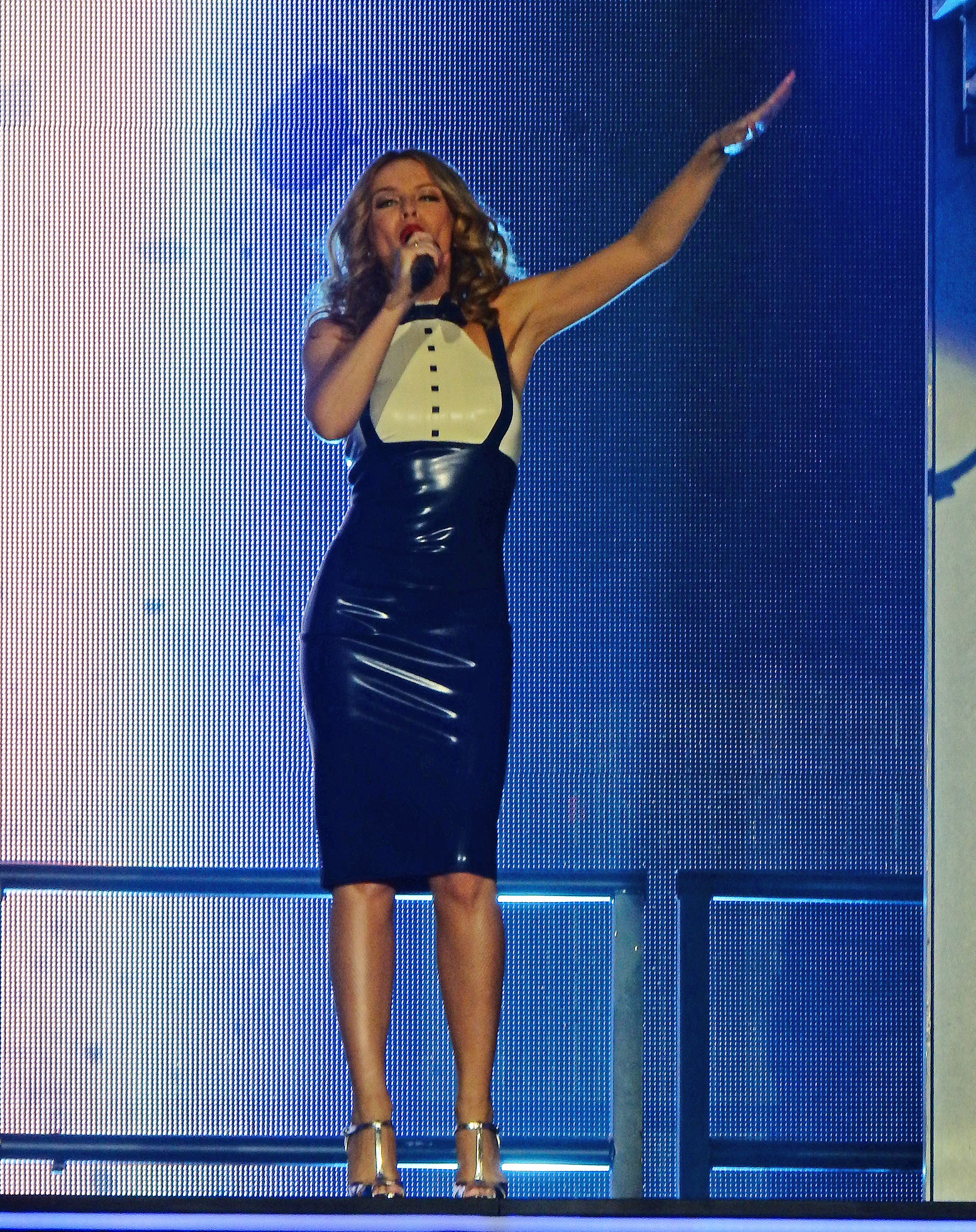 Kylie Minogue - Kiss Me Once Tour - Sheffield - 13.11.14. - 291